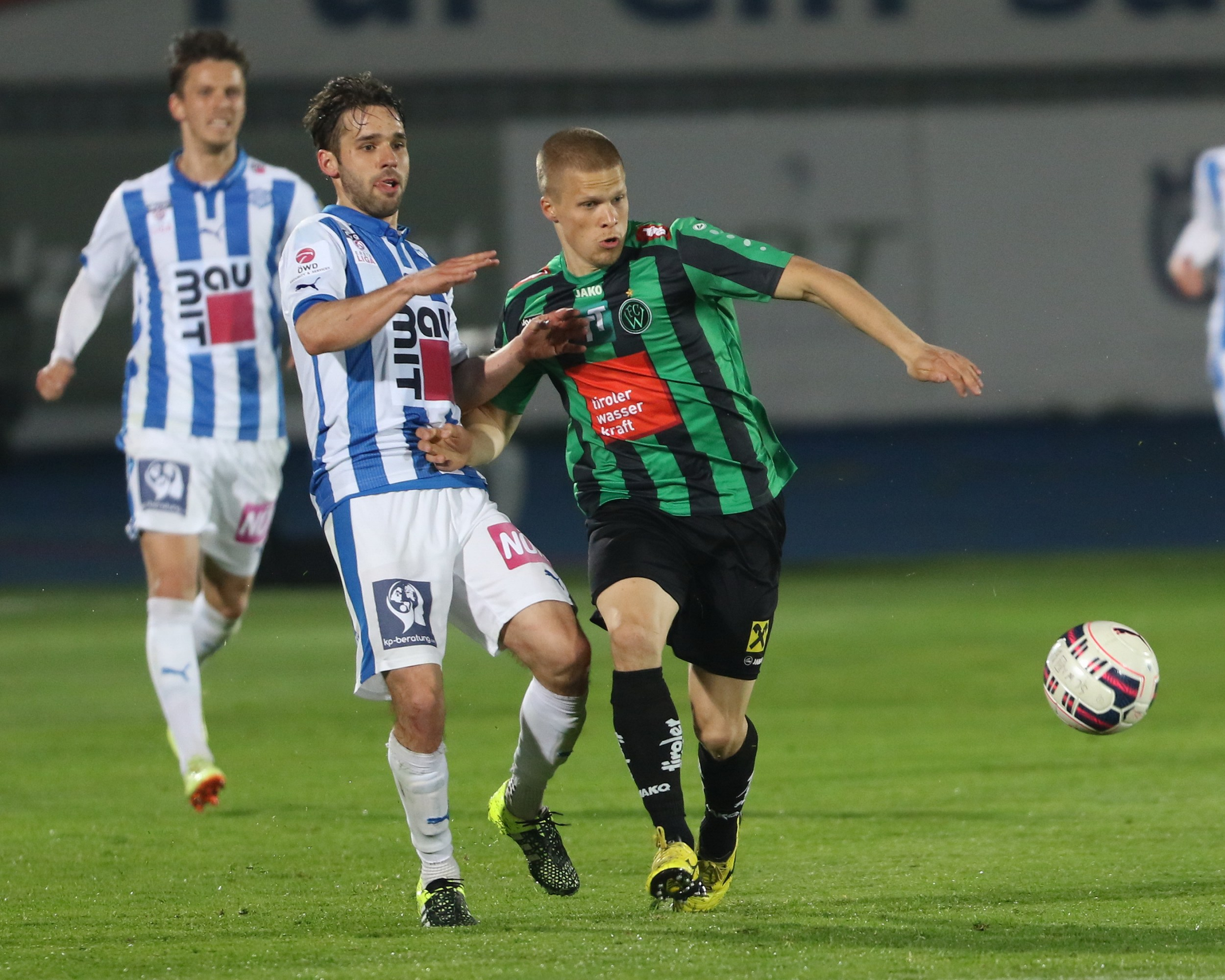 Match of the Erste Liga – SC Wiener Neustadt (blue/white shirts) vs. FC Wacker Innsbruck (green/black shirts) 0–2 (0–1) on 2016-04-11 in the Stadion in Wiener Neustadt – The photo shows from left to right Daniel Wolf, Christoph Saurer and Henrik Ojamaa.